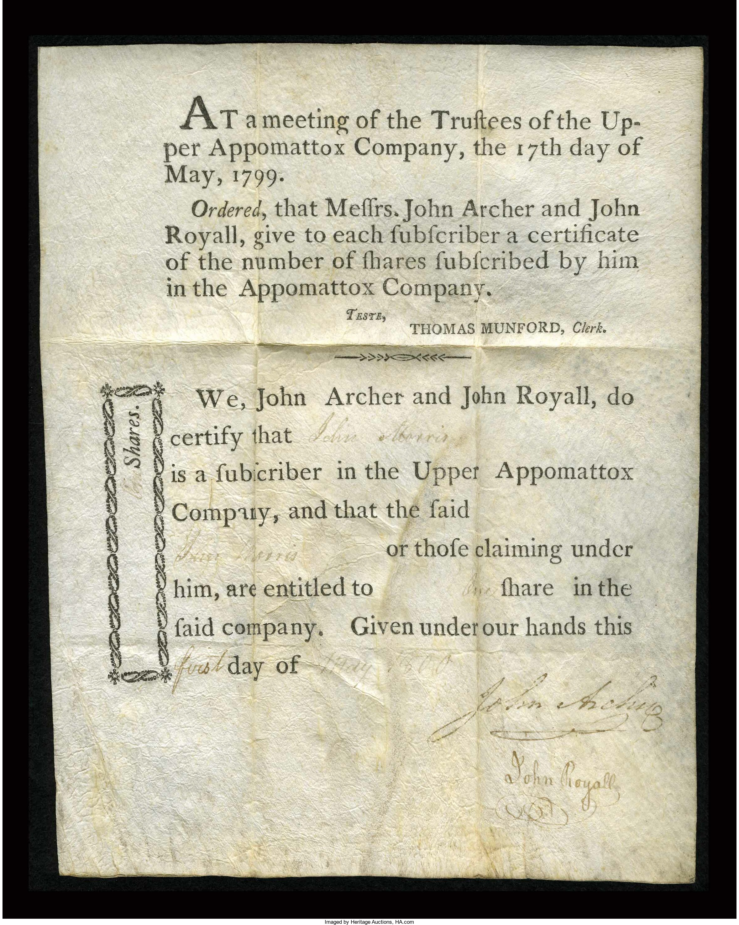 Upper Appomattox Canal Company Stock Certificate.